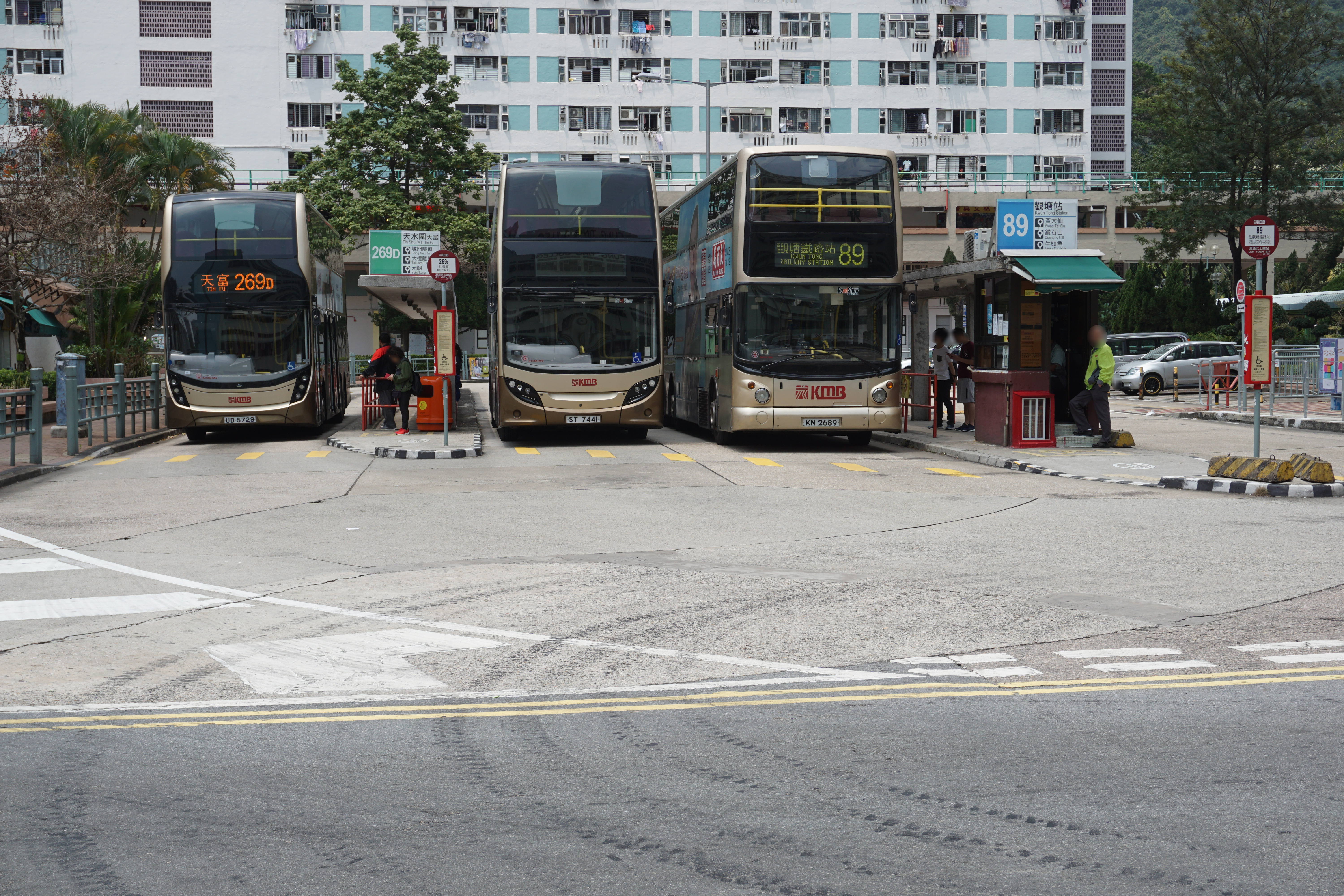 Lek Yuen Bus Terminus in Shatin, Hong Kong.